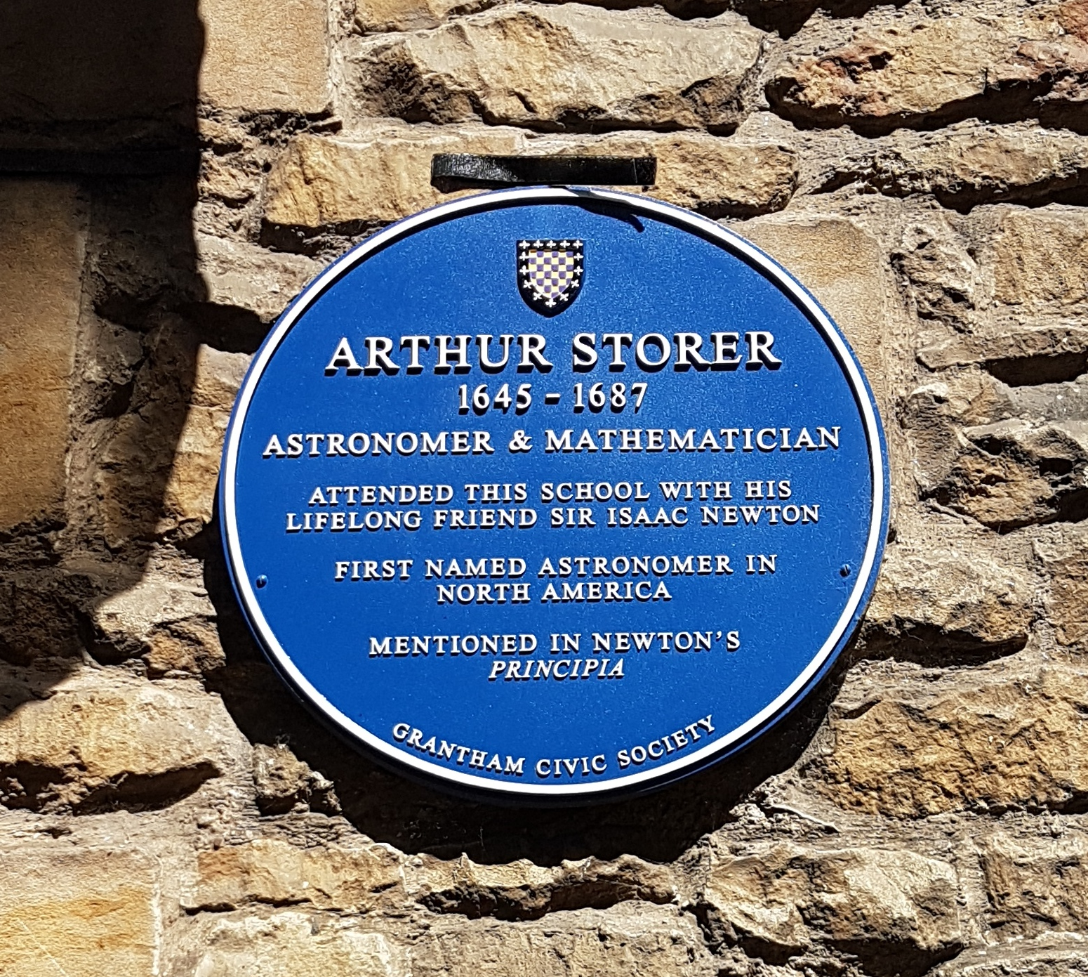 Blue plaque to astronomer Arthur Storer, Old King's School, Grantham. This image represents an Open Plaques entry #42955.